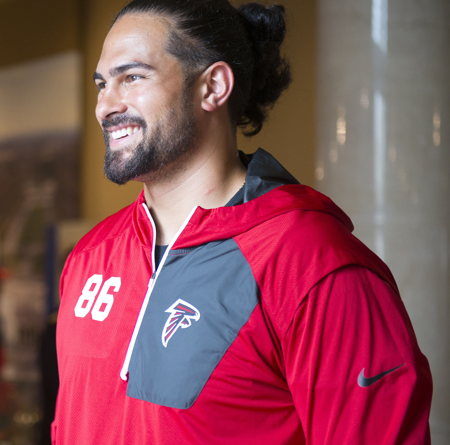 Atlanta Falcons tight end D. J. Tialavea meeting with service members at Arlington National Cemetery in Arlington, Virginia on June 16, 2017.